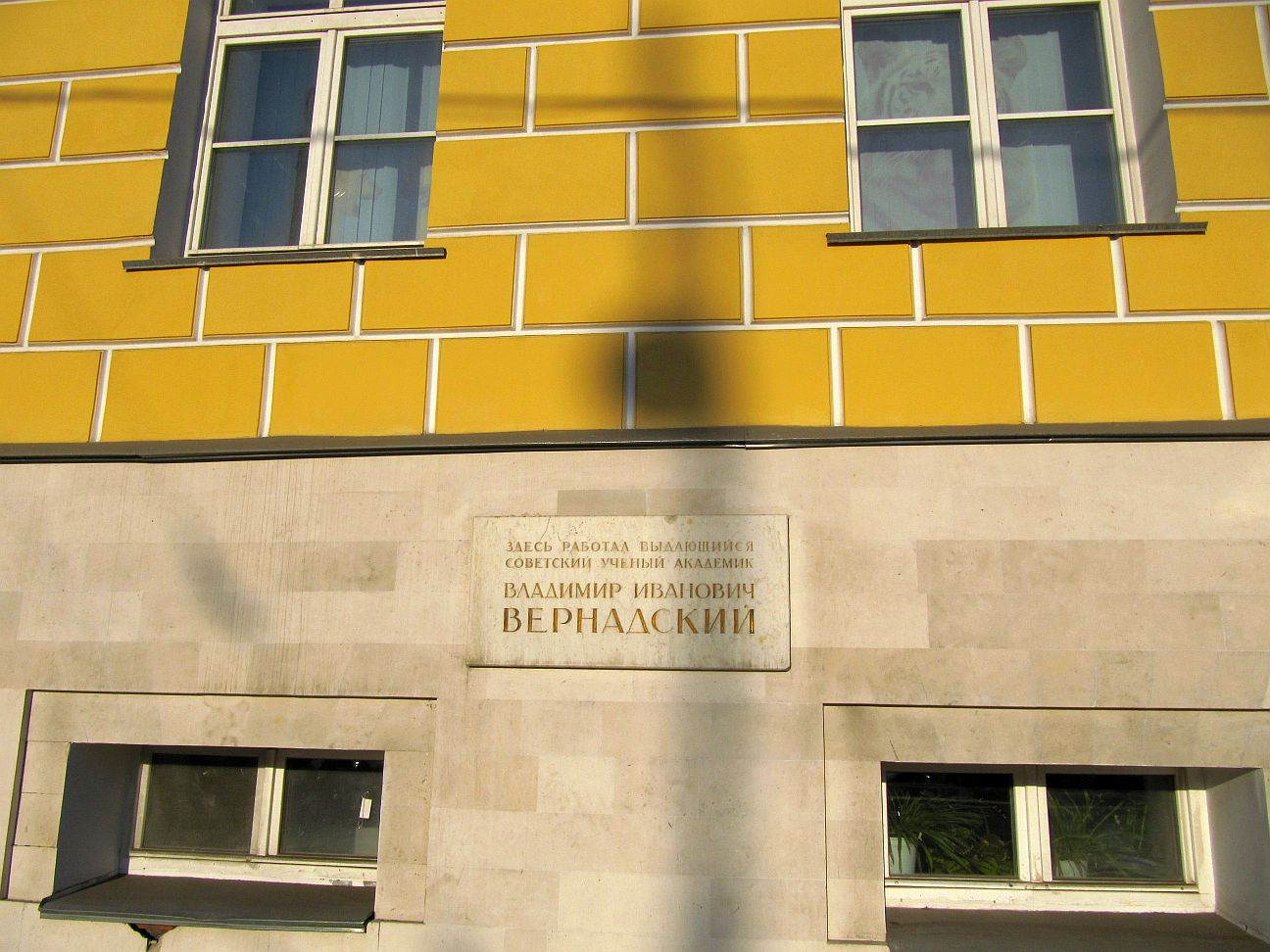 Vladimir I. Vernadsky, a prominent Soviet scientist and thinker, worked at Moscow University